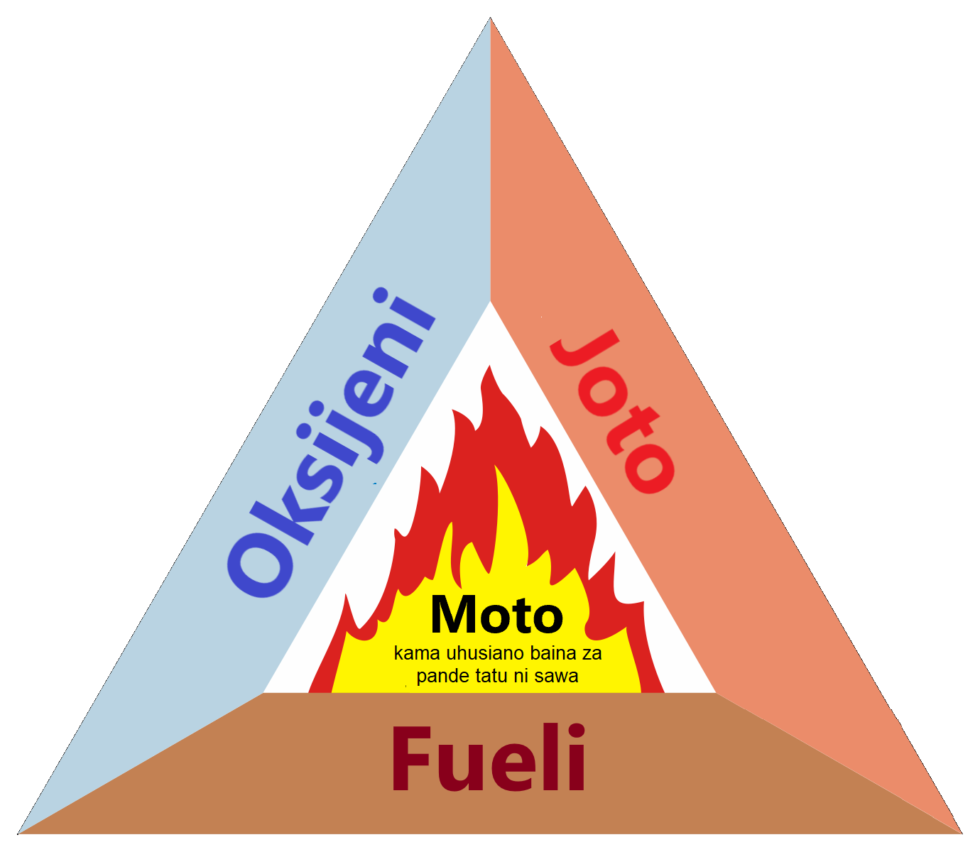 fire triangle, Swahili text Kiswahili: Pembetatu ya moto: vitu hivi vitatu vinapaswa kuwepo kabla ya moto kuwaka